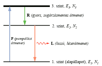 This file was derived from: Population-inversion-3level.png